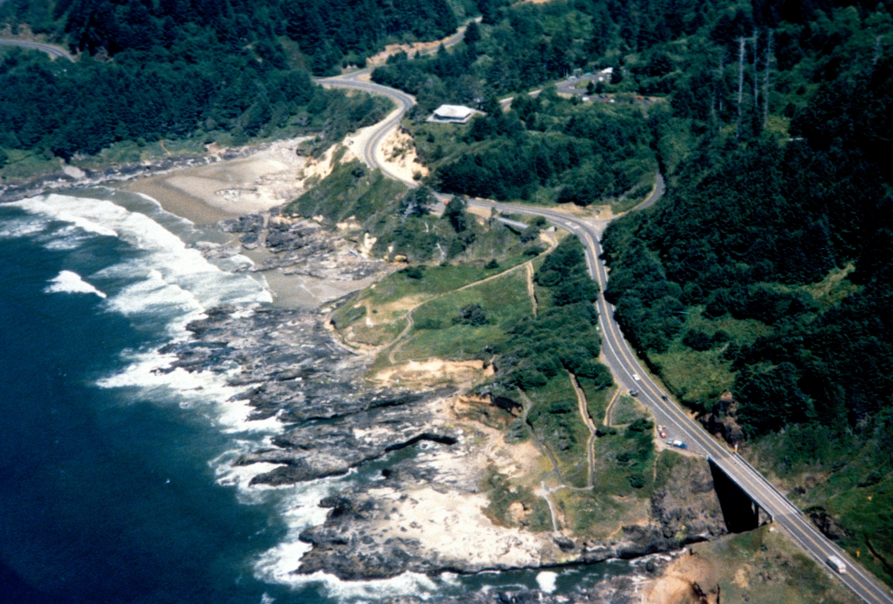 Coastline of Lane County, Oregon, with the Cape Perpetua Visitor Center visible.